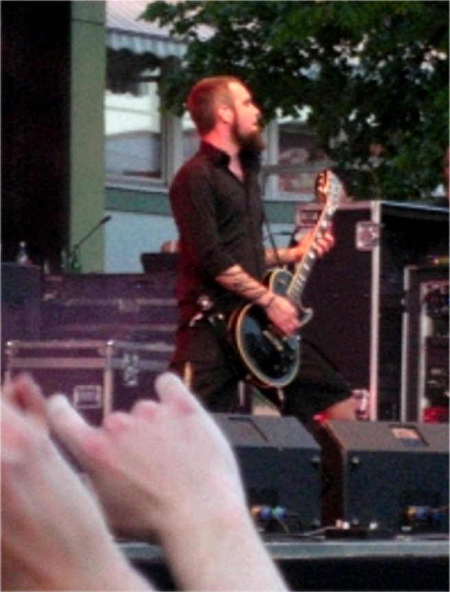 Bjorn Gelotte, In Flames, Grona Lund 2008-05-29